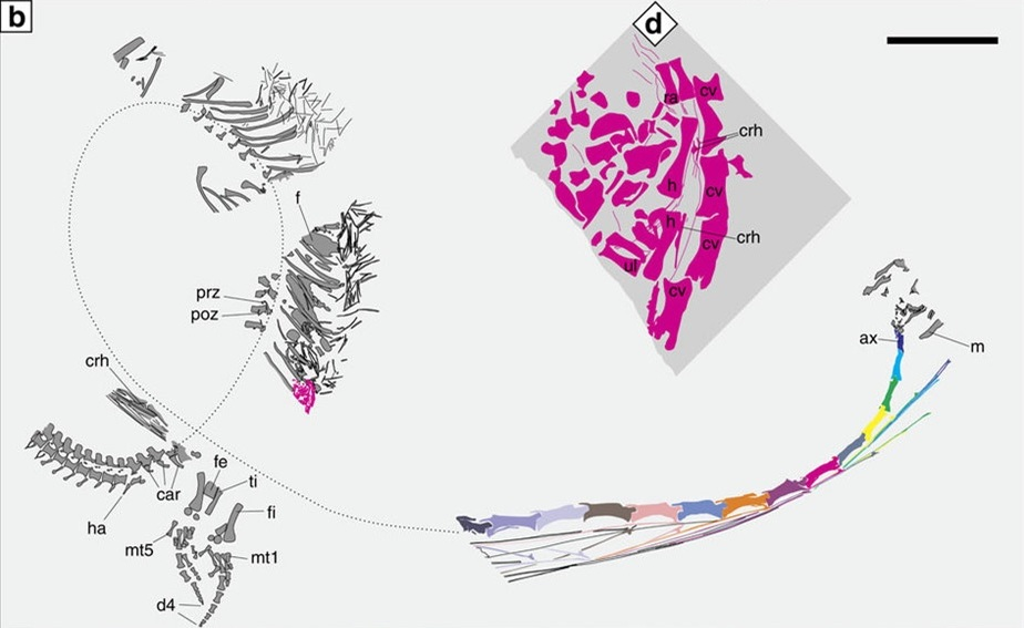 Figure 3: Skeleton of the new Dinocephalosaurus specimen LPV 30280. (a) Photograph. The three separate blocks are arranged following their original positions in the field. (b) Interpretive drawing. Dotted line indicates the rough course of the vertebral column of the adult. The different colour in the cervical region aims to facilitate the association of cervical ribs with corresponding vertebrae. (c) Photo showing a close-up of the embryo preserved in the stomach region of LPV 30280. (d) Interpretive drawing of the embryo. (e) Photo showing a close-up of the perleidid fish preserved in the stomach region of LPV 30280. (f) Artist's reconstruction of Dinocephalosaurus showing the rough position of the embryo within the mother. ax, axis; car, caudal rib; crh, cervical rib head; cv, cervical vertebrae; d4, fourth digit; f, perleidid fish; fe, femur; fi, fibula; h, humerus; ha, haemal arch; m, mandible; mt1, metatarsal 1; mt5, metatarsal 5; poz, postzygapophysis; prz, prezygapophysis; ra, radius; ti, tibia; ul, ulna. Scale bar, 20 cm.